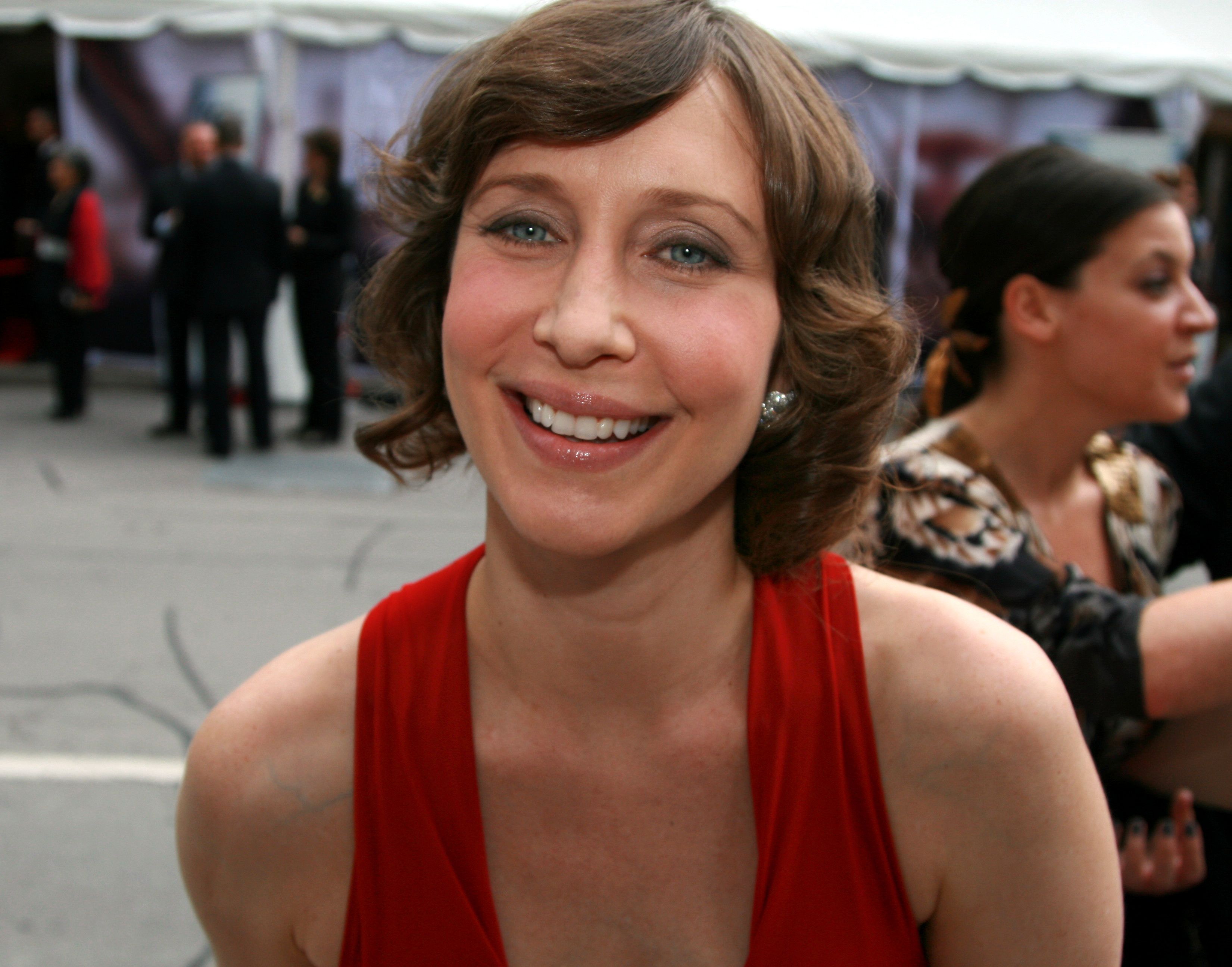 Vera Farmiga at the TIFF premiere of Nothing But the Truth. Monday September 8, 2008.